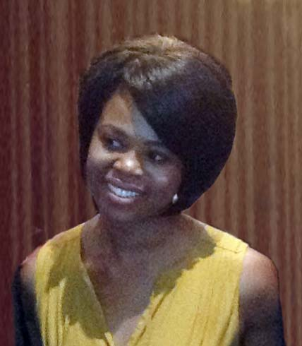 Cropped version of showing Pretty Yende only: background of earlier image was digitally modified to exclude other individuals.